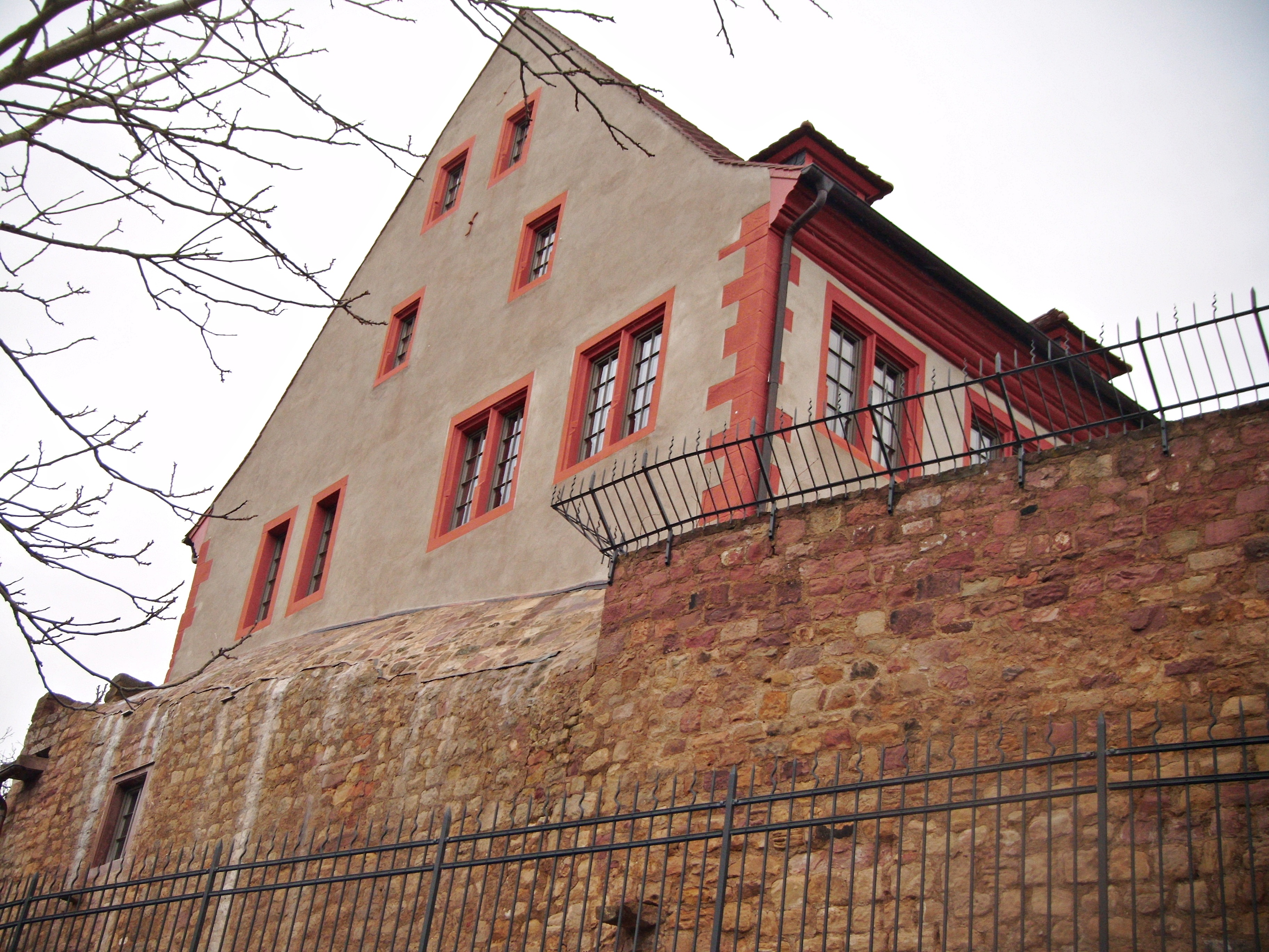 Bischöflich Wormser Kellerei Neuleiningen